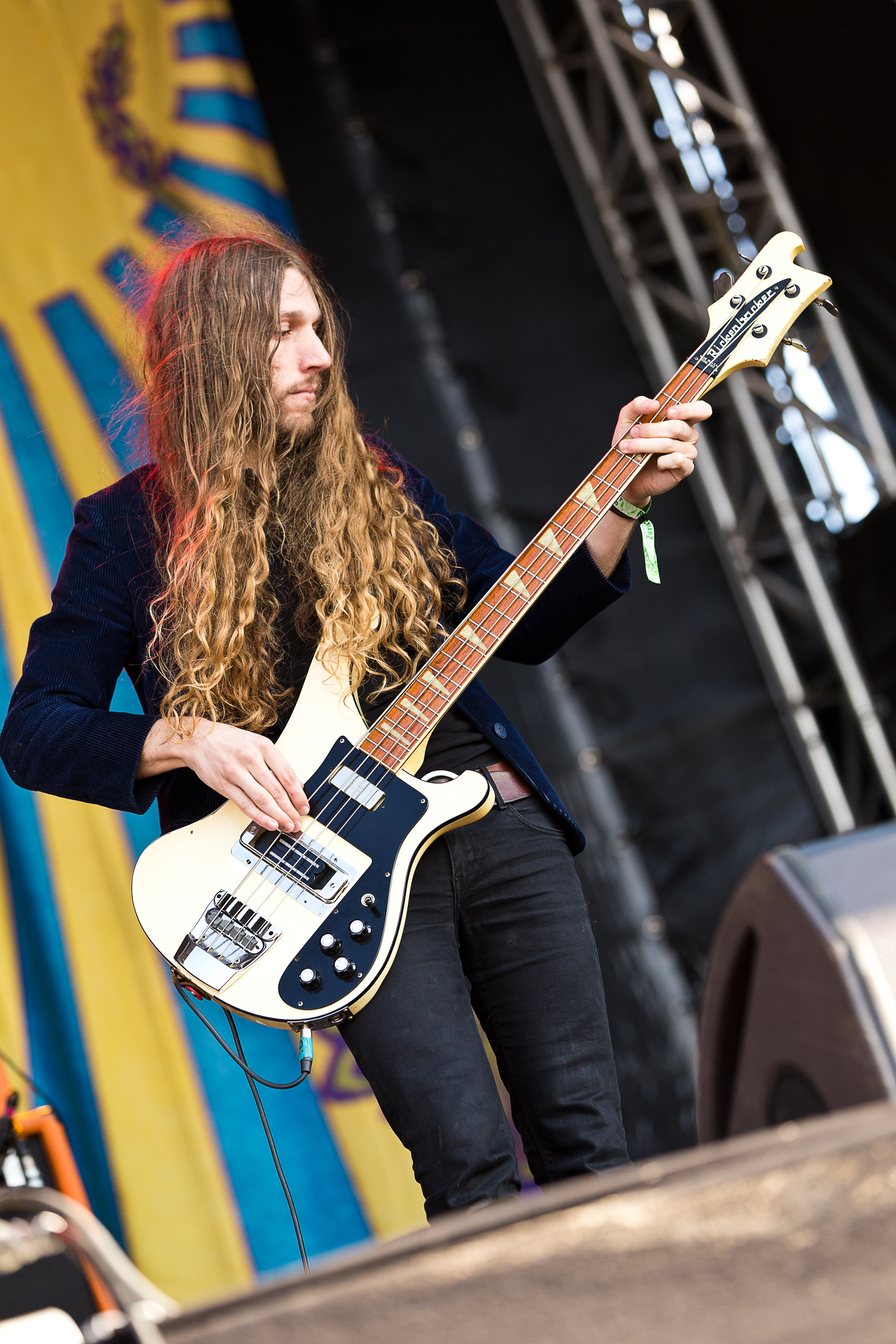 The Swedish blues rock band Blues Pills at the Rockharz Open Air 2015 in Ballenstedt/Germany.